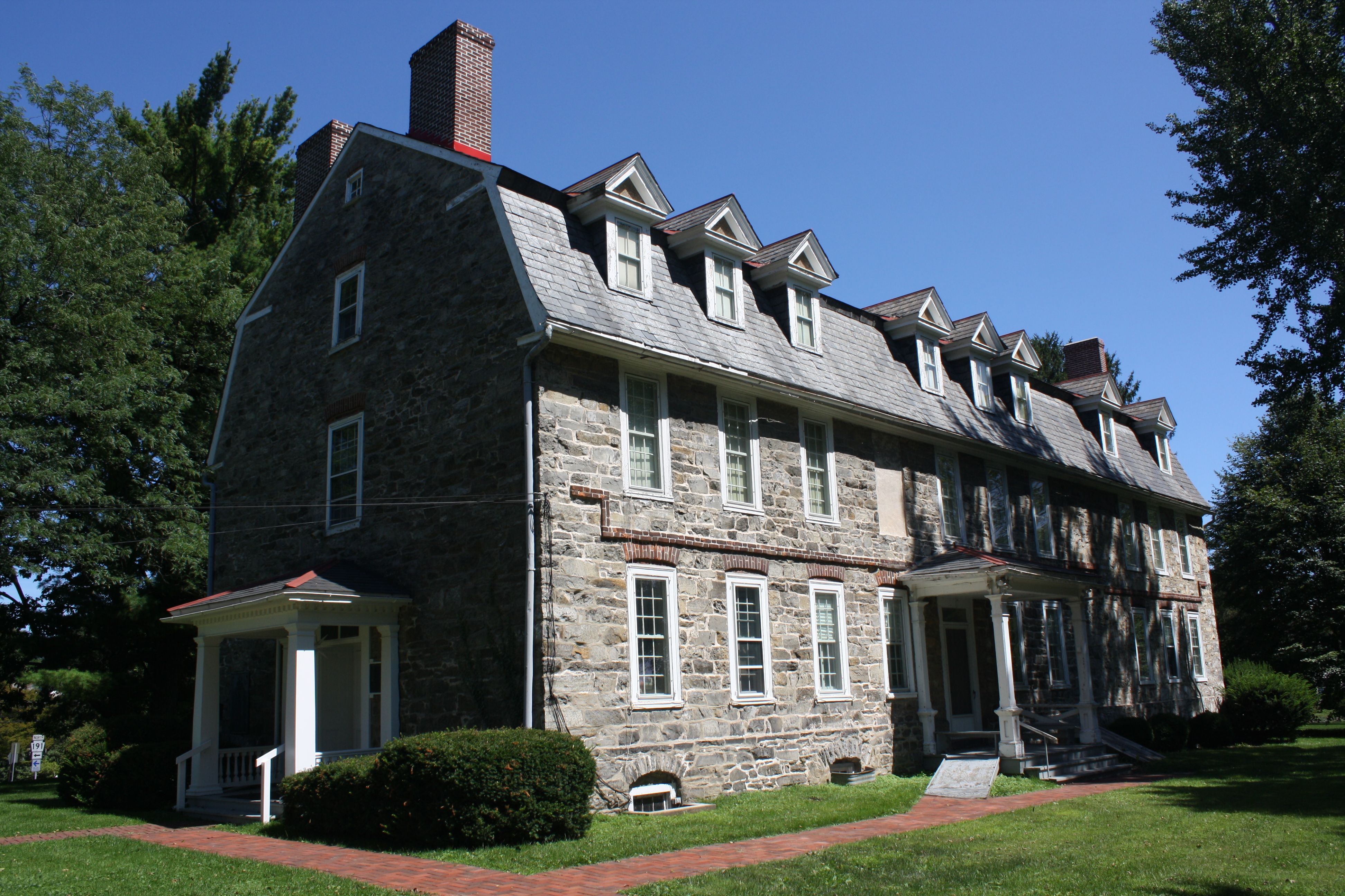 Whitefield House and Gray Cottage are two historic homes located at Nazareth, Northampton County, Pennsylvania. They were both built about 1740, by Moravian settlers. The Whitefield House is a stone building named for George Whitefield (1714-1770). The view form west.